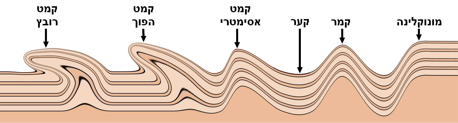 structure of folds, Hebrew